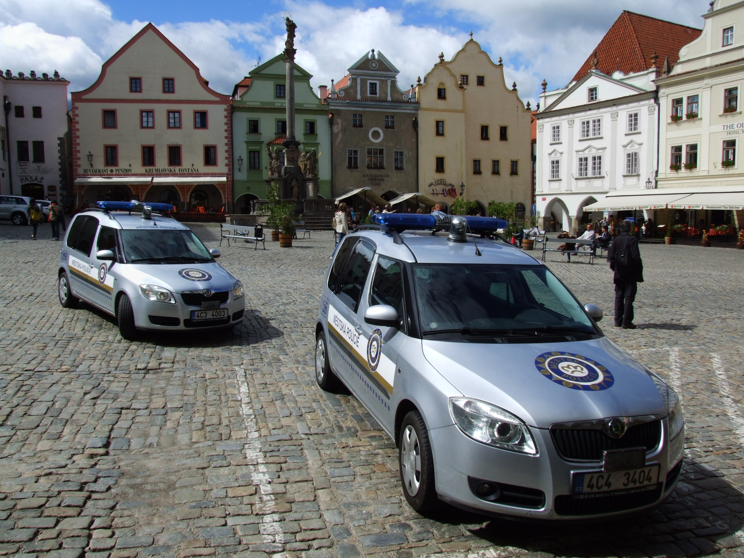 Český Krumlov (Krummau) - city police